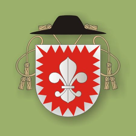 Coat of arms of dean´s office Svitavy(CZ)